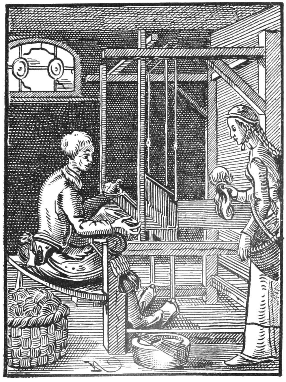 Hand weaver